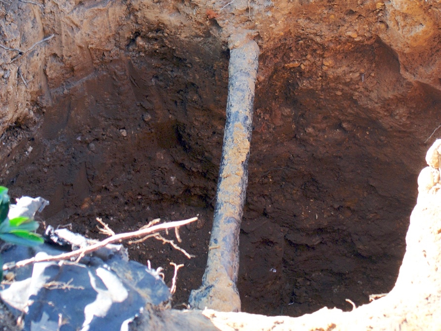 lead pipe replacement project at the house, document... July'08.